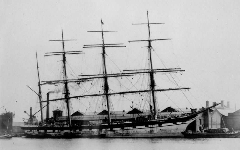 Loch Broom (ship)